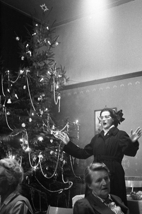 Christmas night with Major Alida Bosshardt. The major sings Christmas carols with spread arms. The Netherlands, 1959